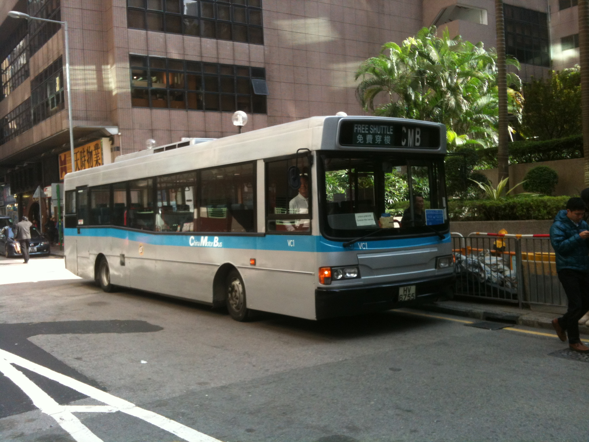 This photo is taken in North Point.